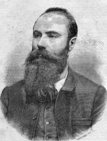 French poet and playwright Maurice Bouchor (1855-1929)